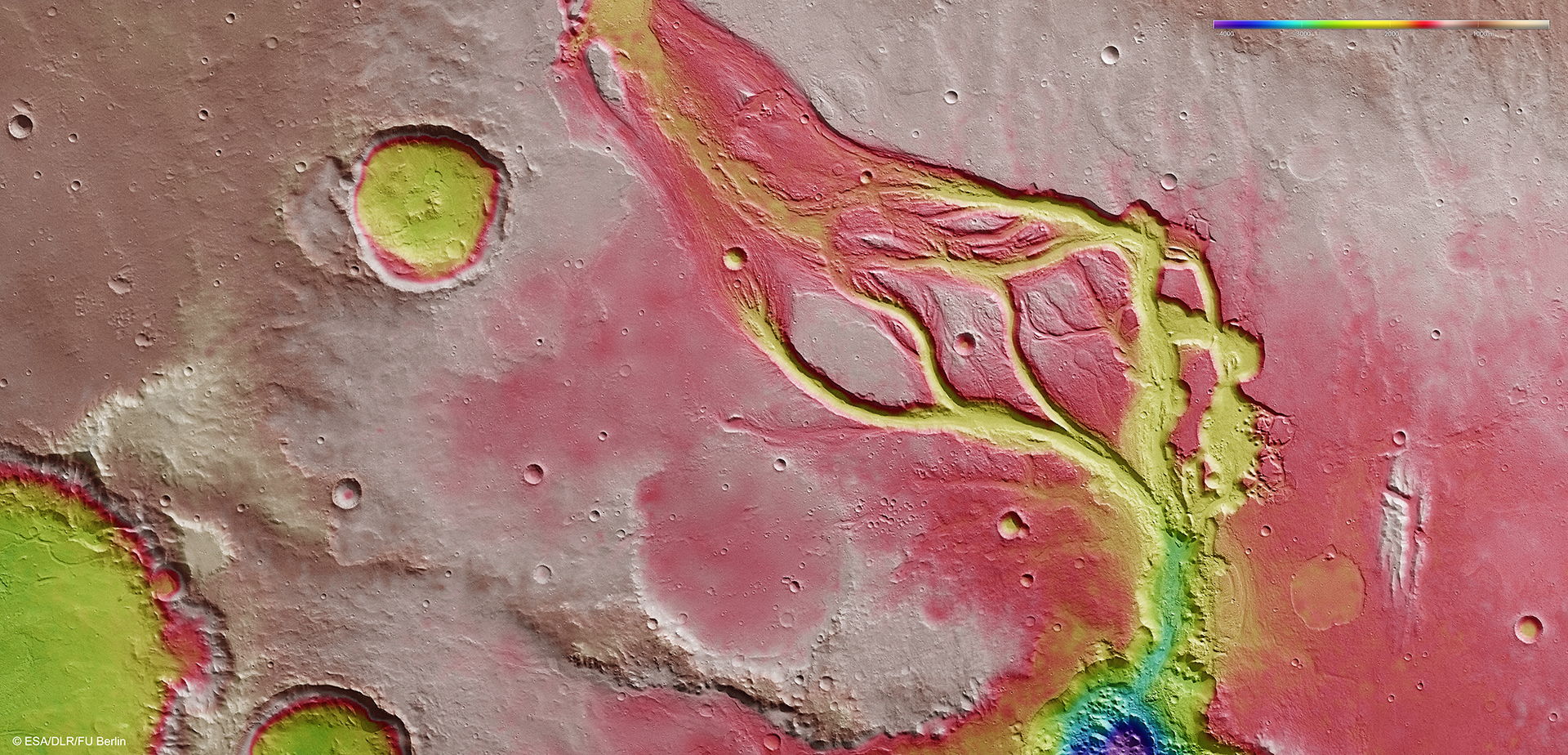 Colour-coded topography map of the central portion of Osuga Valles. White and red show the highest terrains, while blue and purple show the deepest. The image is based on a digital terrain model of the region, from which the topography of the landscape has been derived. The image was created using data acquired with the High Resolution Stereo Camera on Mars Express on 7 December 2013 during orbit 12 624. The image resolution is about 17 m per pixel and the image centre is at about 15ºS / 322ºE. Credit: ESA/DLR/FU Berlin, CC BY-SA 3.0 IGO Copyright Notice: This work is licenced under the Creative Commons Attribution-ShareAlike 3.0 IGO (CC BY-SA 3.0 IGO) licence. The user is allowed to reproduce, distribute, adapt, translate and publicly perform this publication, without explicit permission, provided that the content is accompanied by an acknowledgement that the source is credited as 'ESA/DLR/FU Berlin’, a direct link to the licence text is provided and that it is clearly indicated if changes were made to the original content. Adaptation/translation/derivatives must be distributed under the same licence terms as this publication. To view a copy of this license, please visit